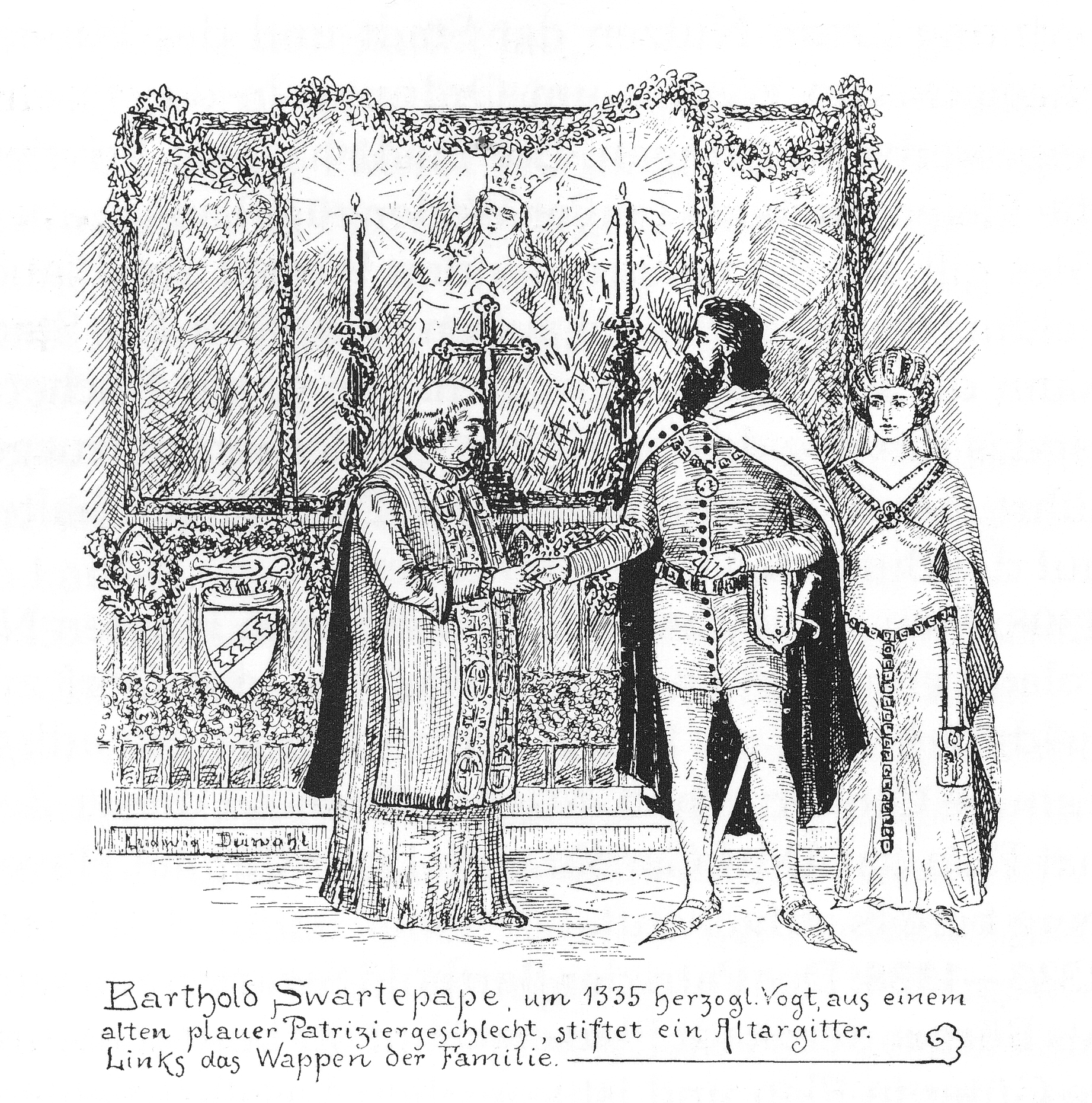 Barthold Swartepape donates an altar rail to the St. Mary Church in Plau am See (imaginary scene), drawing by Ludwig Düwahl